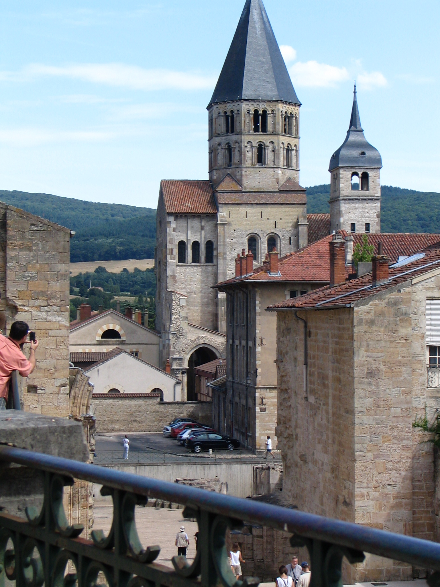 An overview - the heart of the Abbey of Cluny